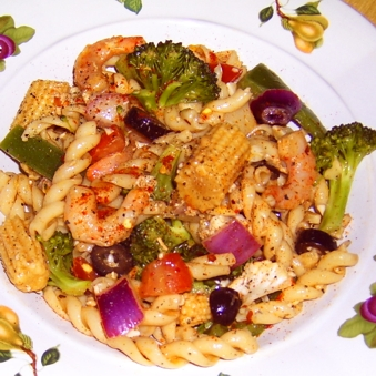 pasta salad with shrimp, chicken and vegetables